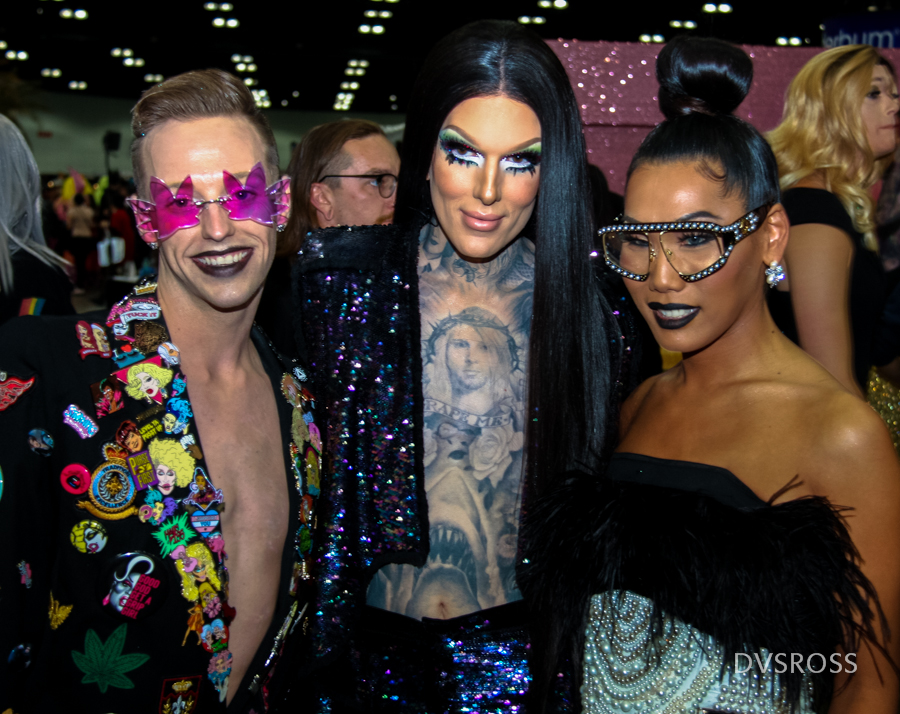 (From left to right) Laganja Estranja, Jeffree Star and Gia Gunn at RuPaul's DragCon LA 2018 (Notes added)